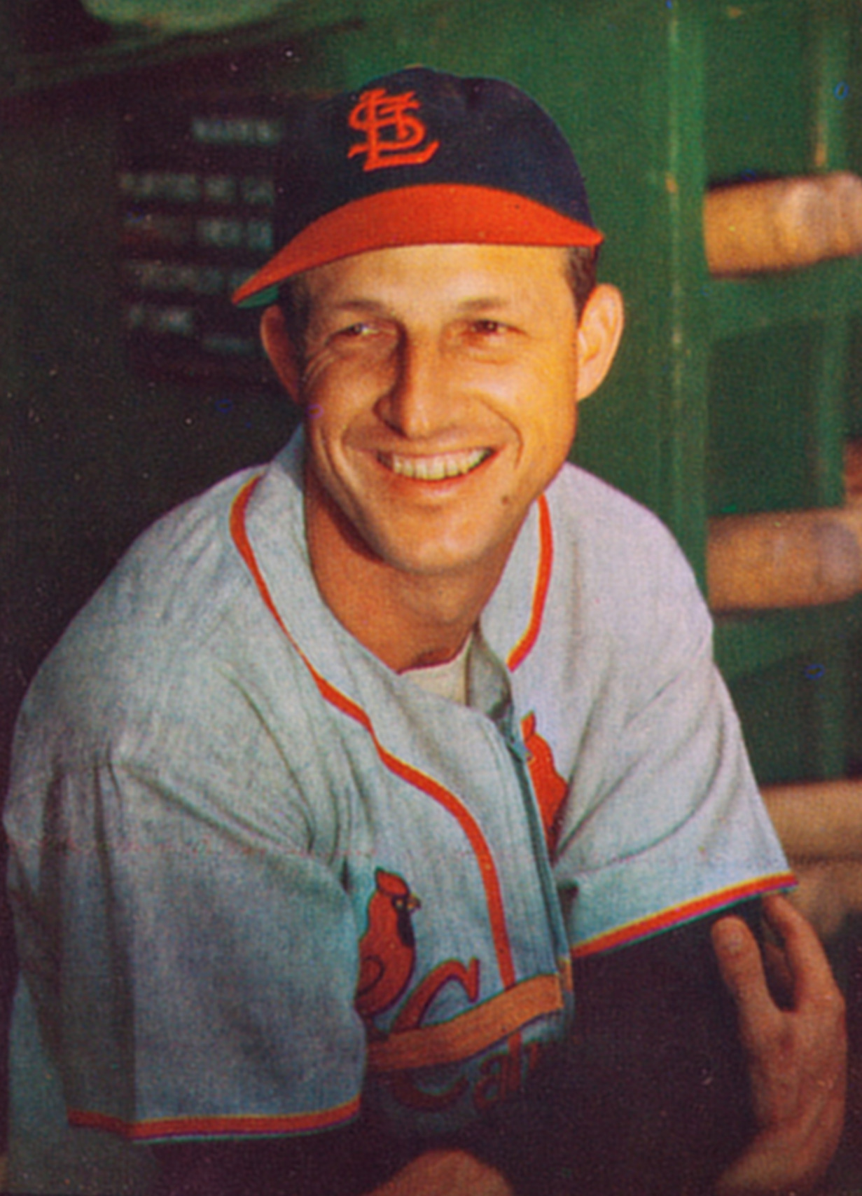 St. Louis Cardinals Hall of Famer Stan Musial as he was depicted on his 1953 Bowman baseball trading card.